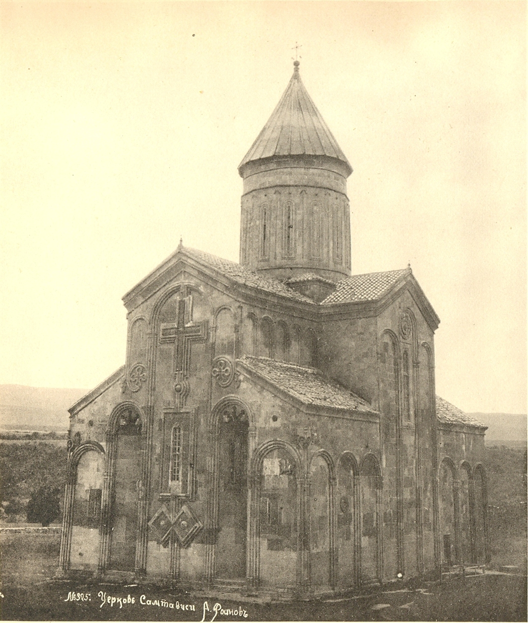 Samtavisi church.